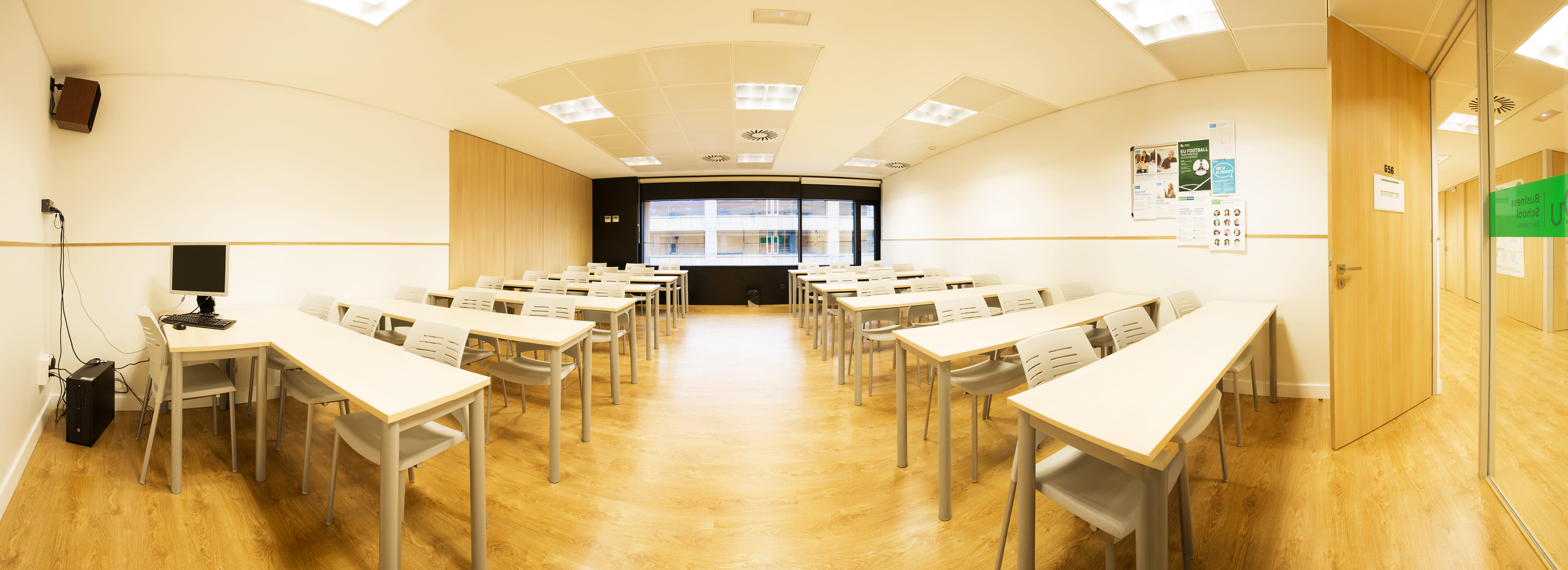 Picture of EU Business School Barcelona's classroom